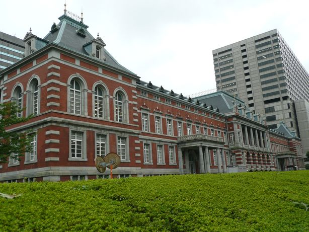 Ministry of justice. 法務省 旧本館 赤レンガ棟, Chiyoda-ku.